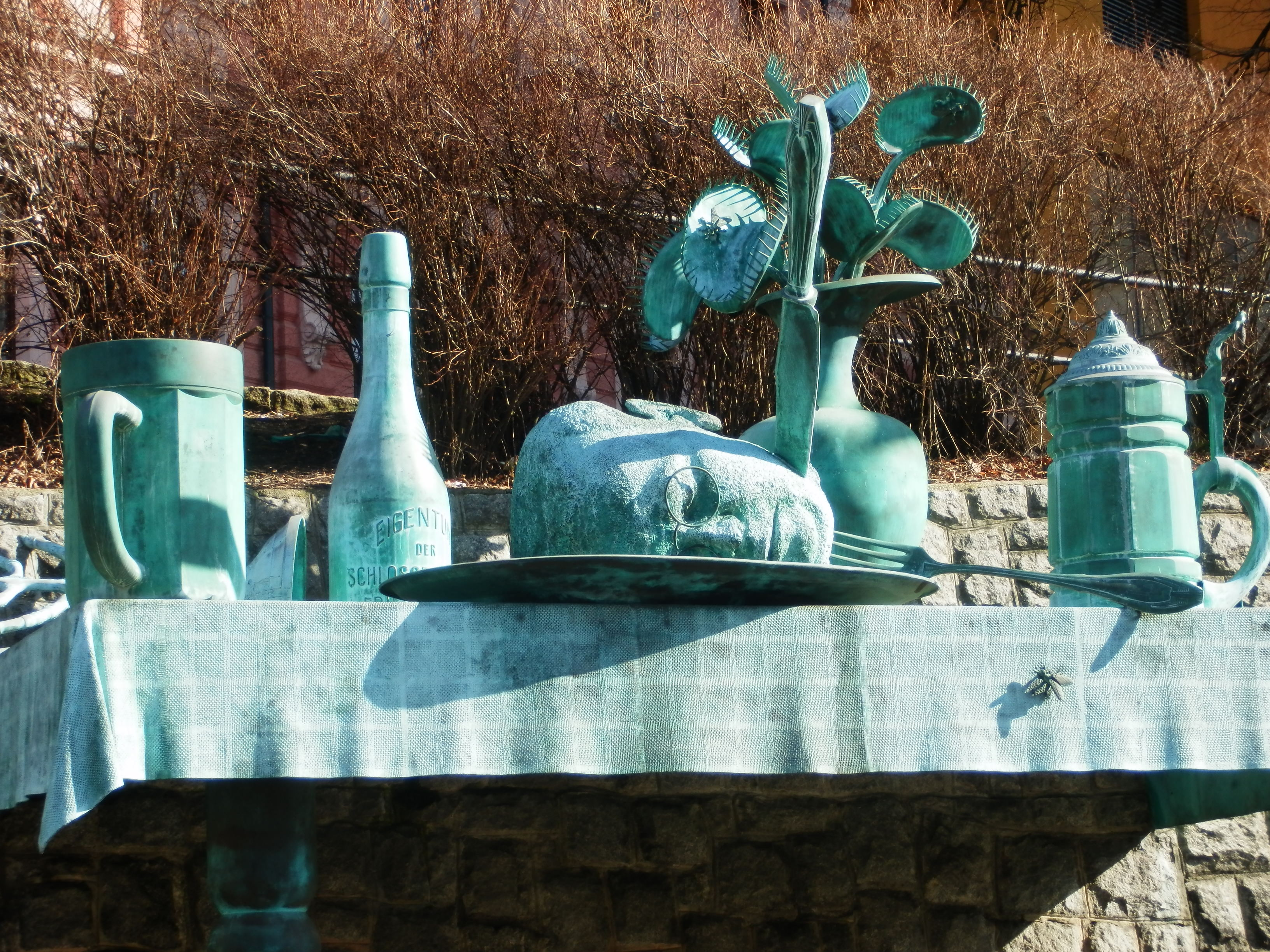 The feast of Giants Stop Liberec Czech Republic 1